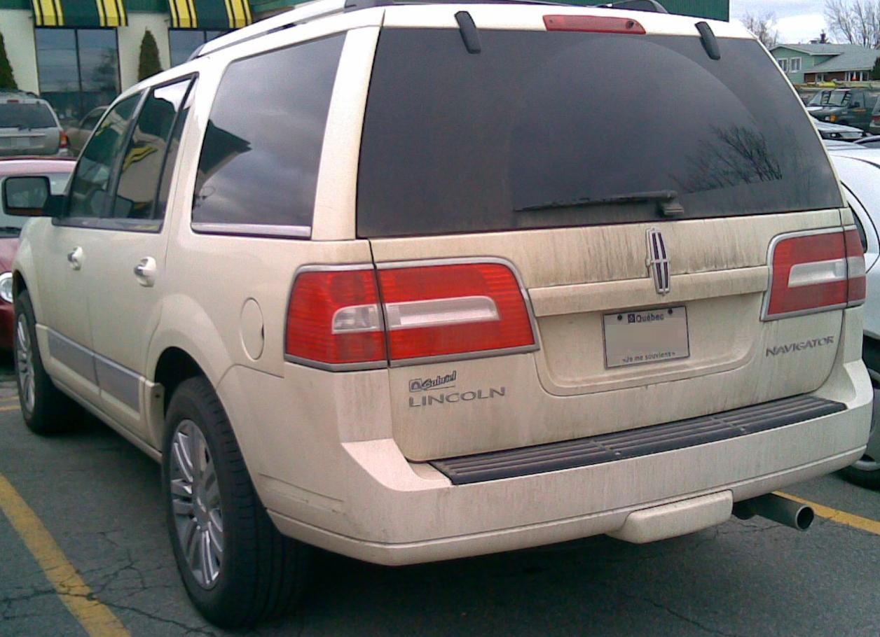 2007 Lincoln Navigator photographed in Montreal, Quebec, Canada.